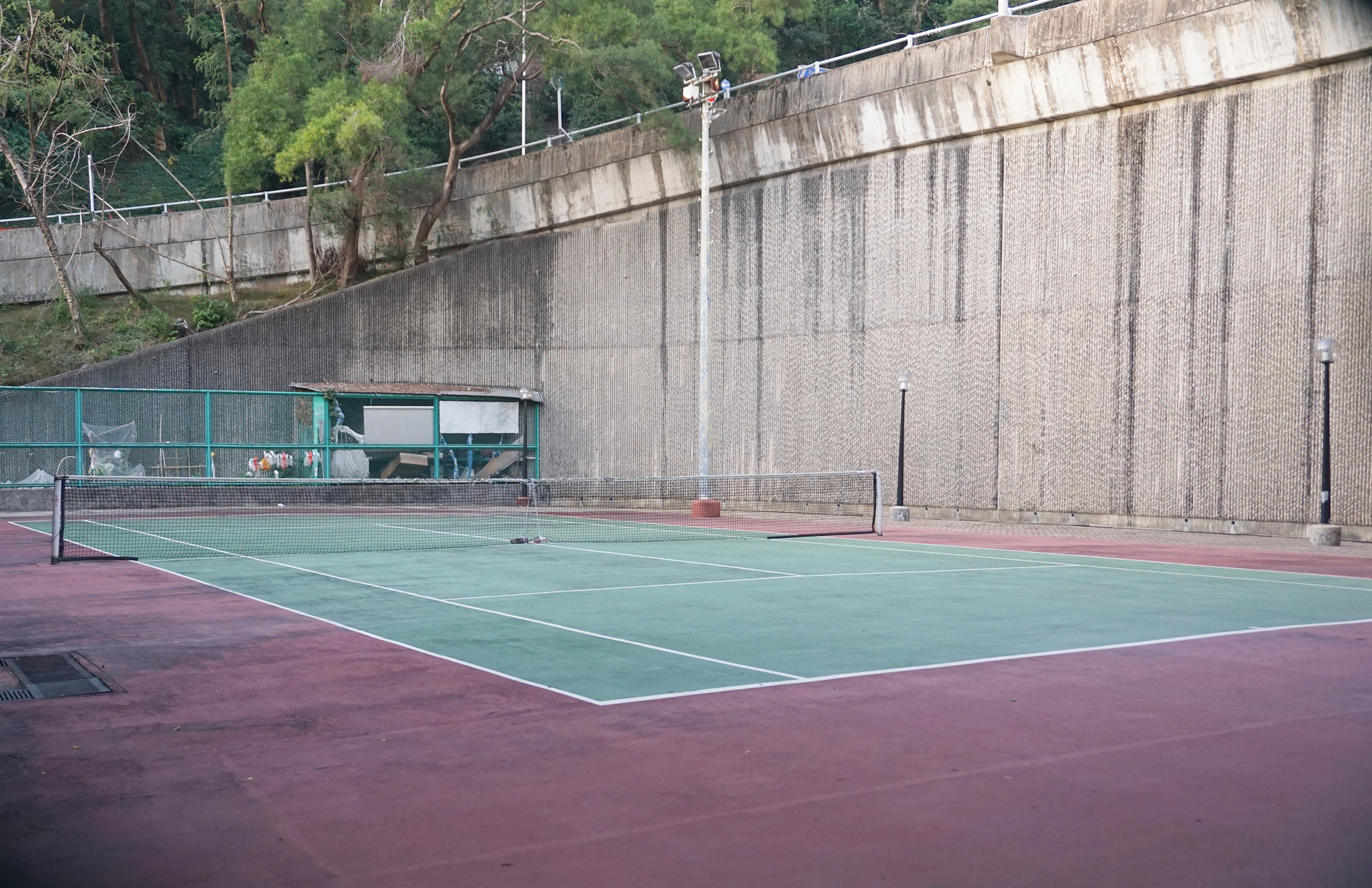 Tin Ma Court in Chuk Yuen, Hong Kong.